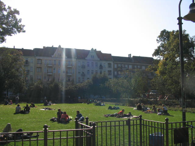 Description: Boxhagener Platz in Friedrichshain, Berlin. Source: self-made. I release it into the public domain.